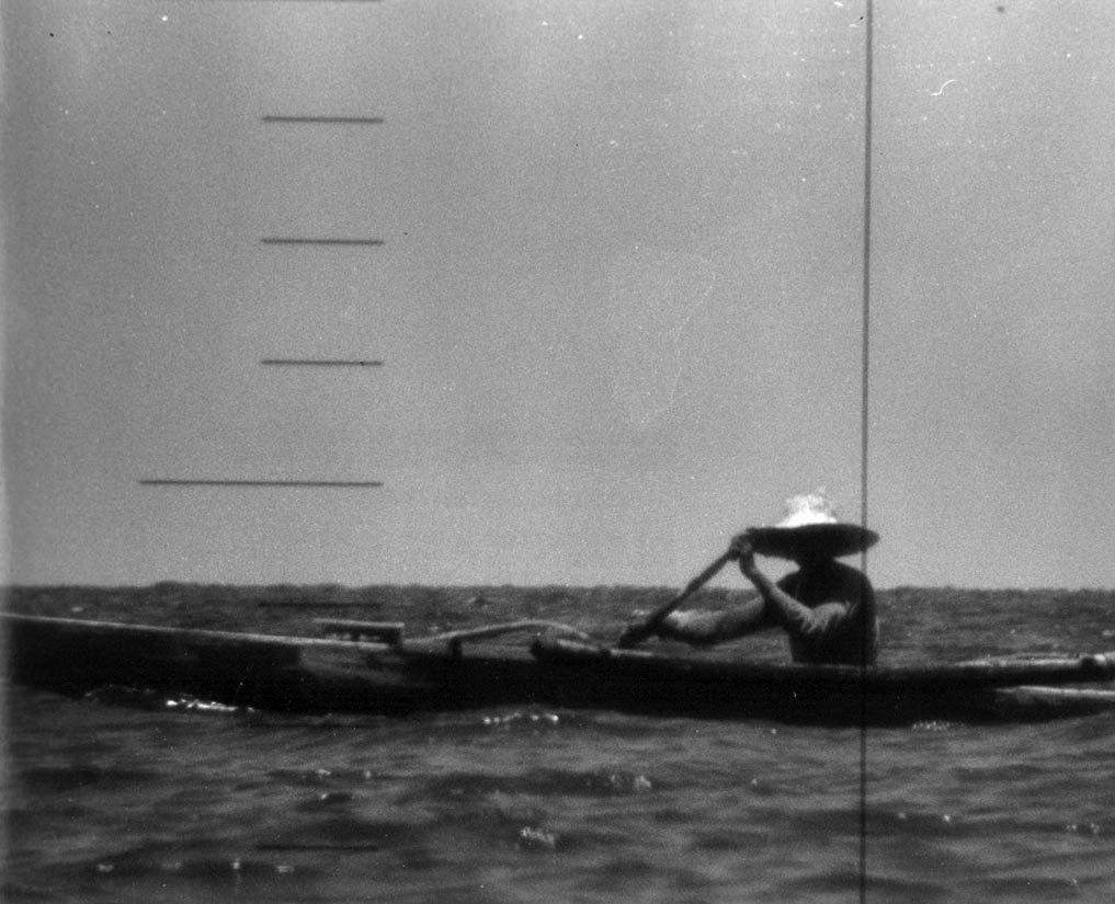 Rubino Baring sighted by USS Triton in the Bohol Strait, 1 April 1960.